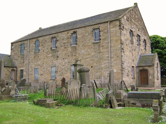 New Monkland Parish Church & Churchyard